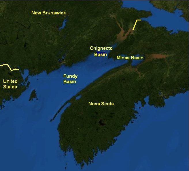 Image of the Maritimes area of southeastern Canada.